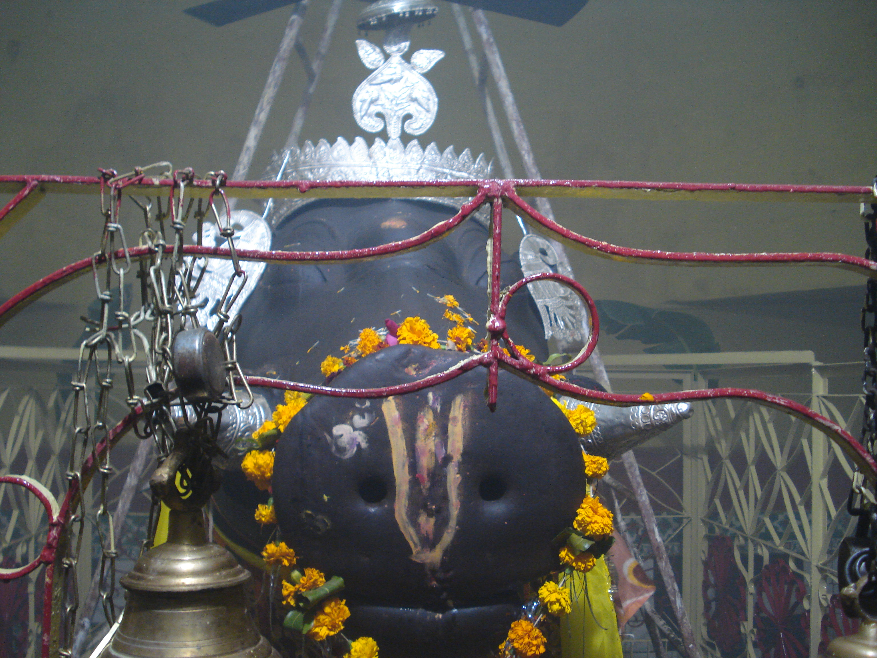 This is Varaha's elephant size statue. A ladder is used to decorate this statue.